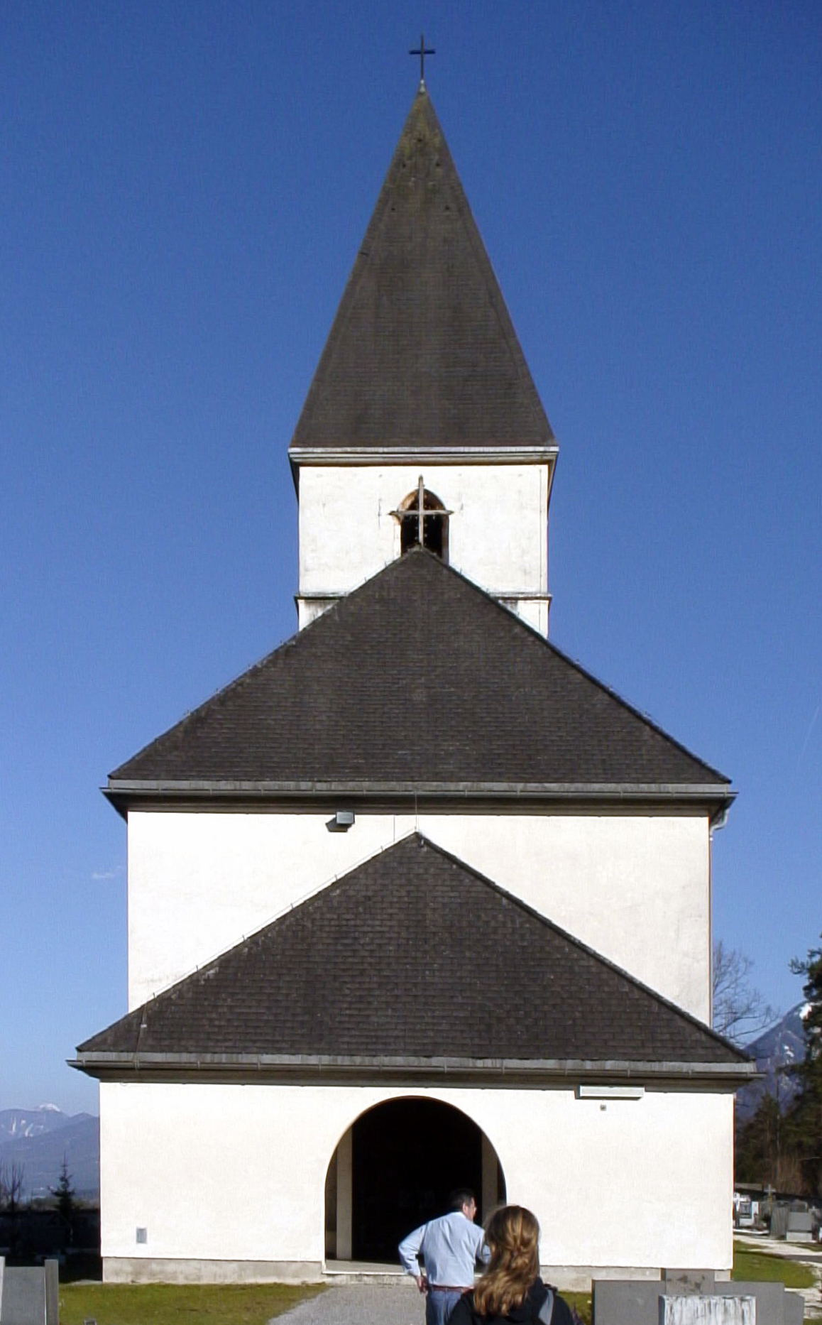 Parish church Holy Jakob, in Saint Jakob, municipality Saint Jakob in the Rosental, district Villach Land, Carinthia, Austria